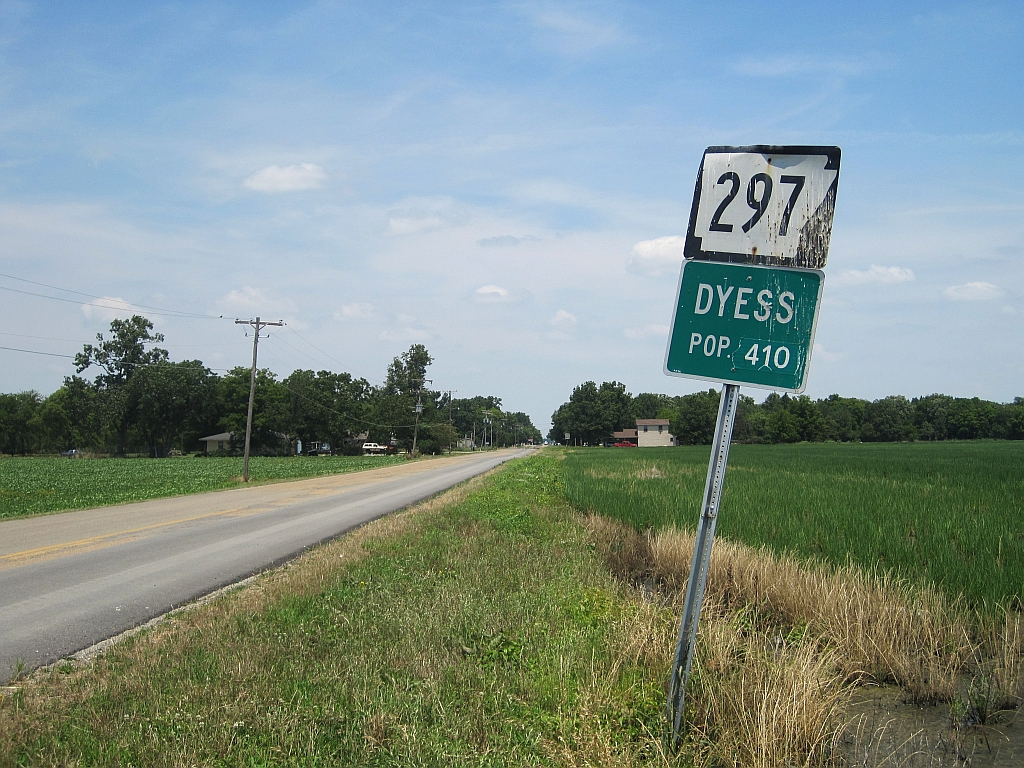 Dyess, Arkansas. Boyhood home of singers Johnny Cash and Gene Williams.